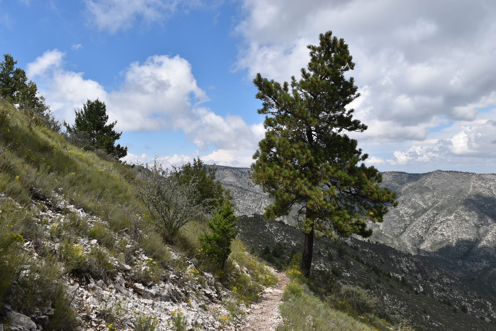 The hiking trail to the top of Guadalupe Peak